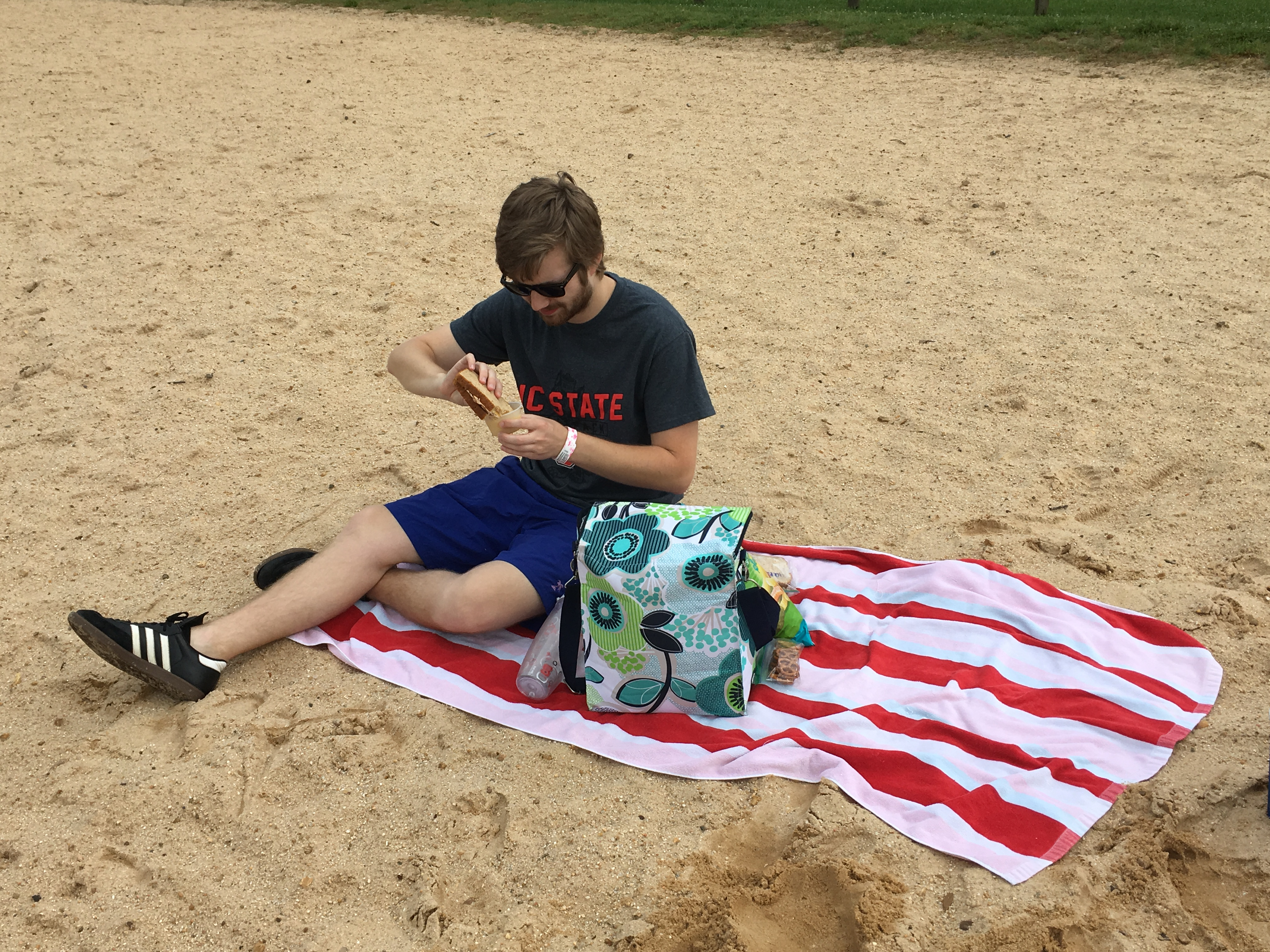 Enjoying a picnic on the beach on June 5, 2016.